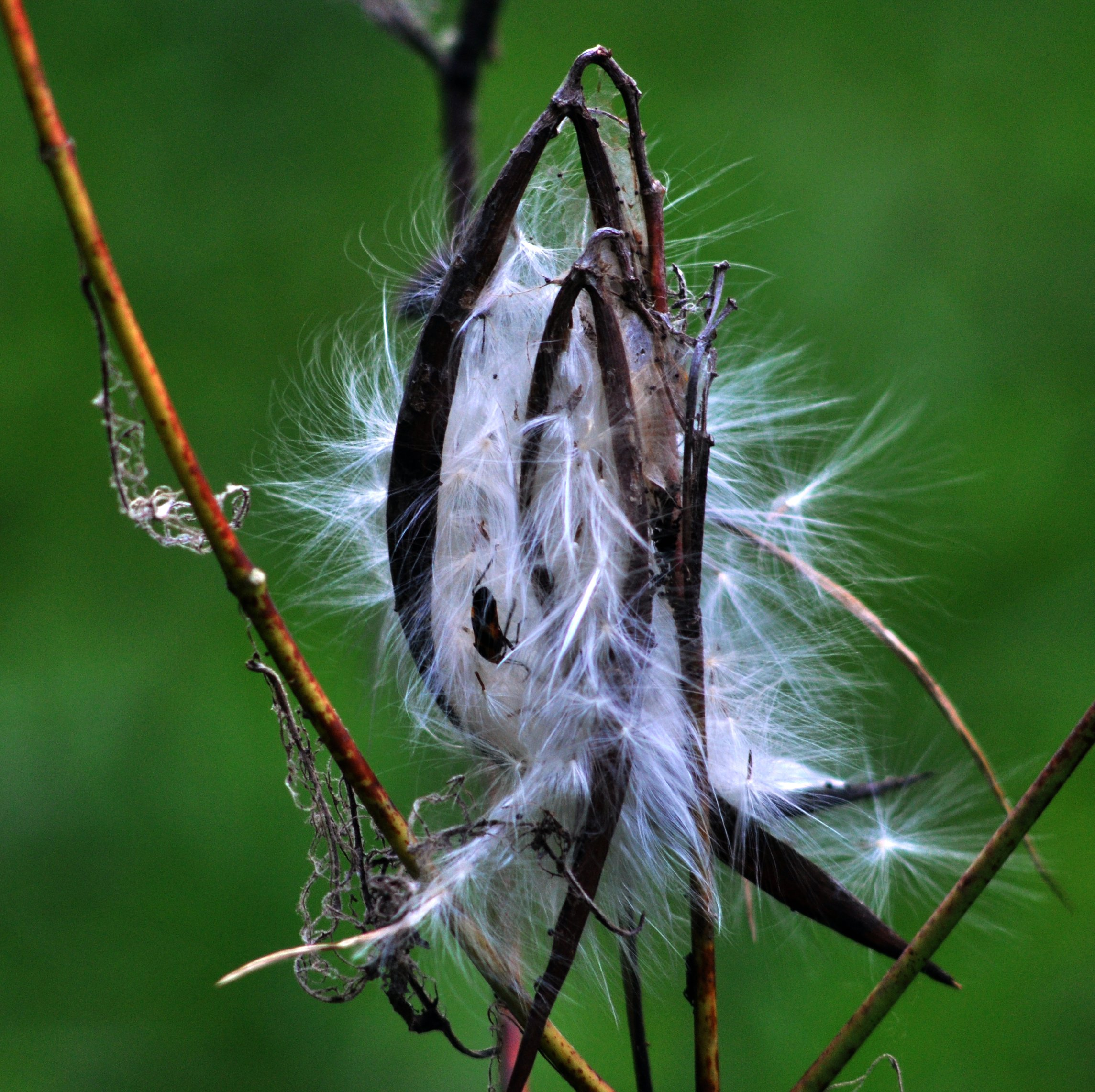 Hemp Dogbane (Apocynum cannabinum)